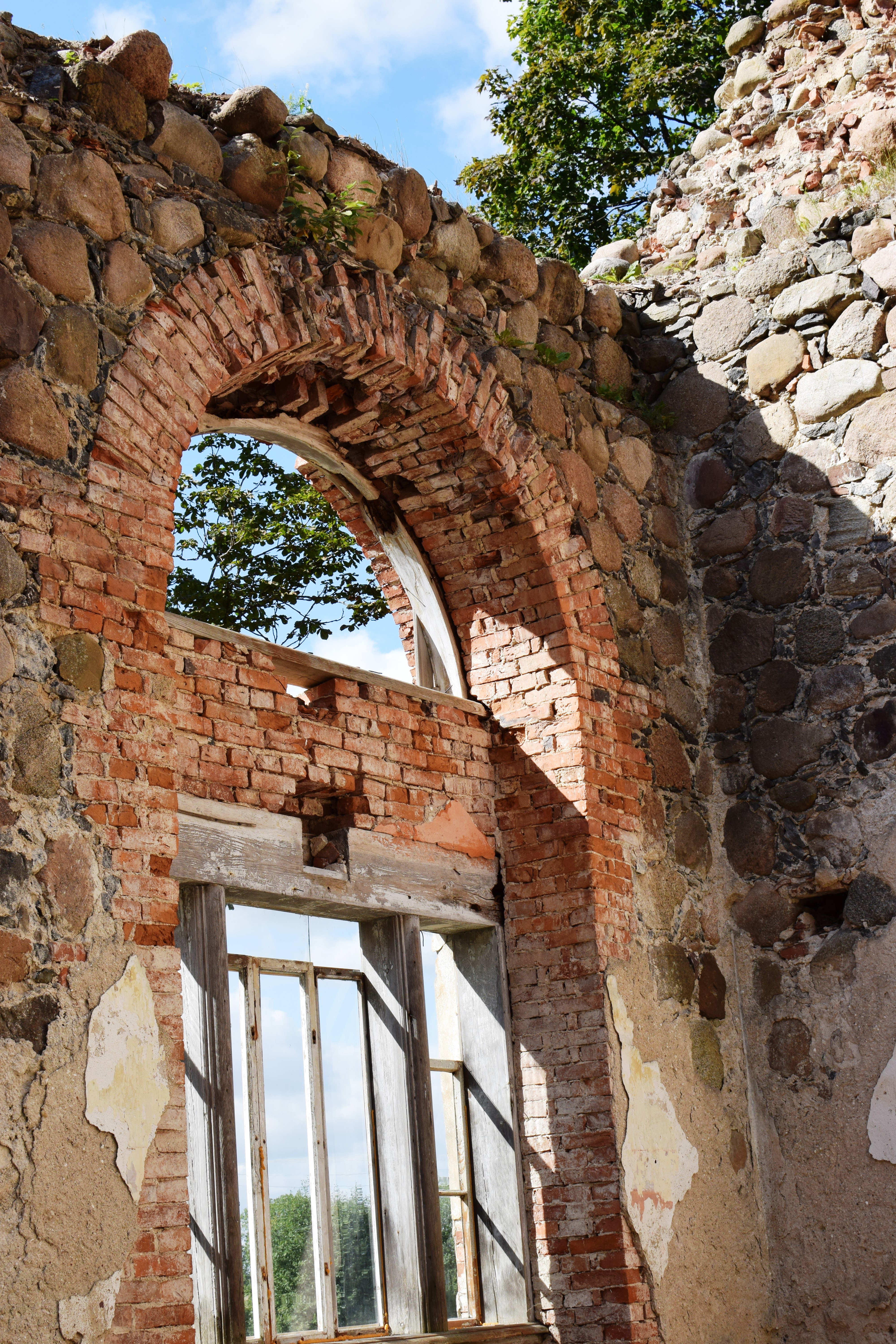 Saldus Municipality